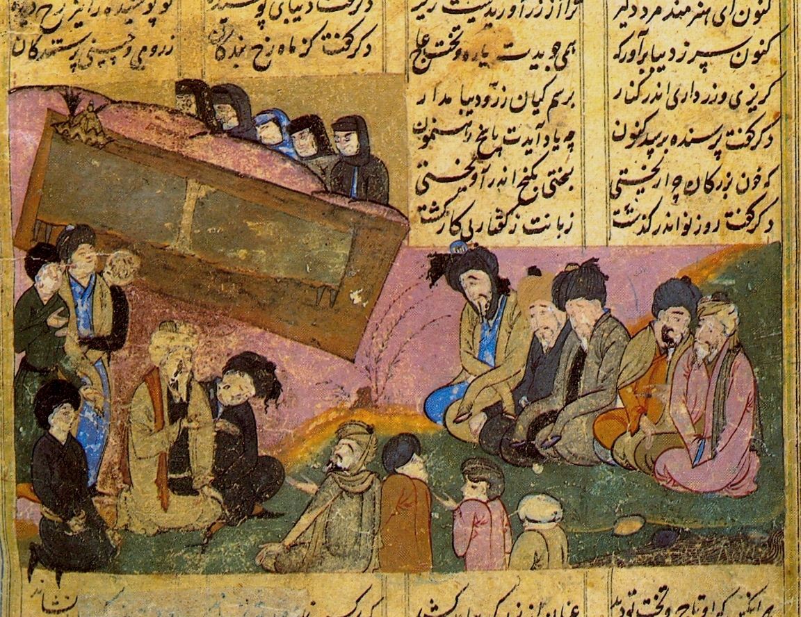 Muhammad Murad Samarqandi, Le chant funebre aux funerailles d'Iskandar. Shahname, 1556, Institut d'Orientalisme, Tachkent